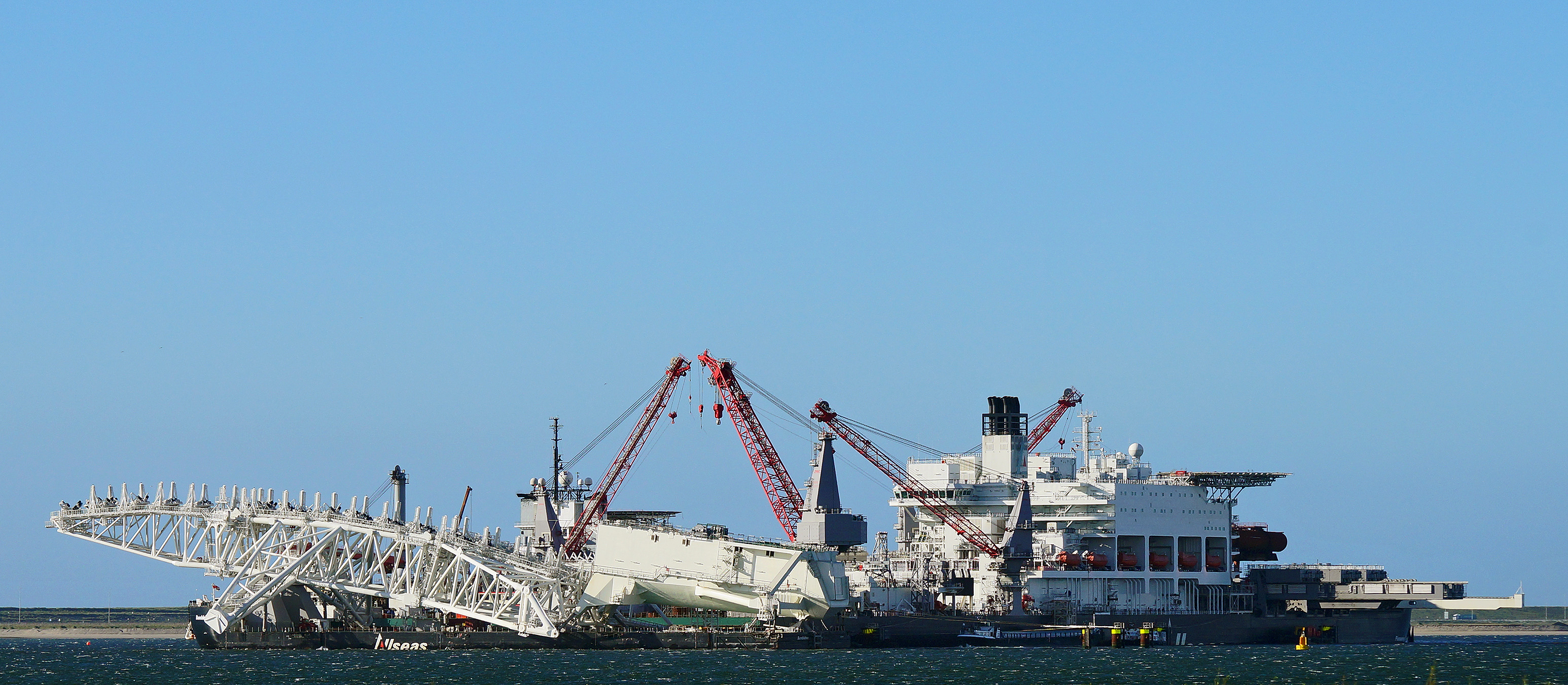 Crane ship Pioneering Spirit, Maasvlakte 2, Rotterdam.